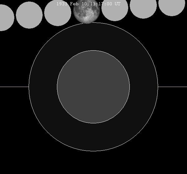 =lunar eclipse chart of moon's path through the earth's shadow. thumb